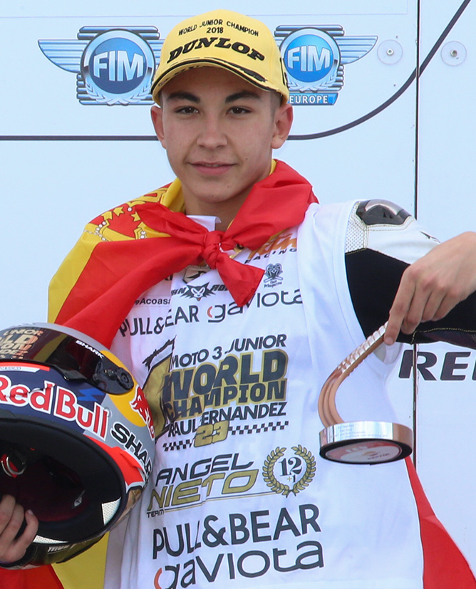 Raúl Fernández on the podium of the 2018 CEV Moto3 Valencia II race 2.